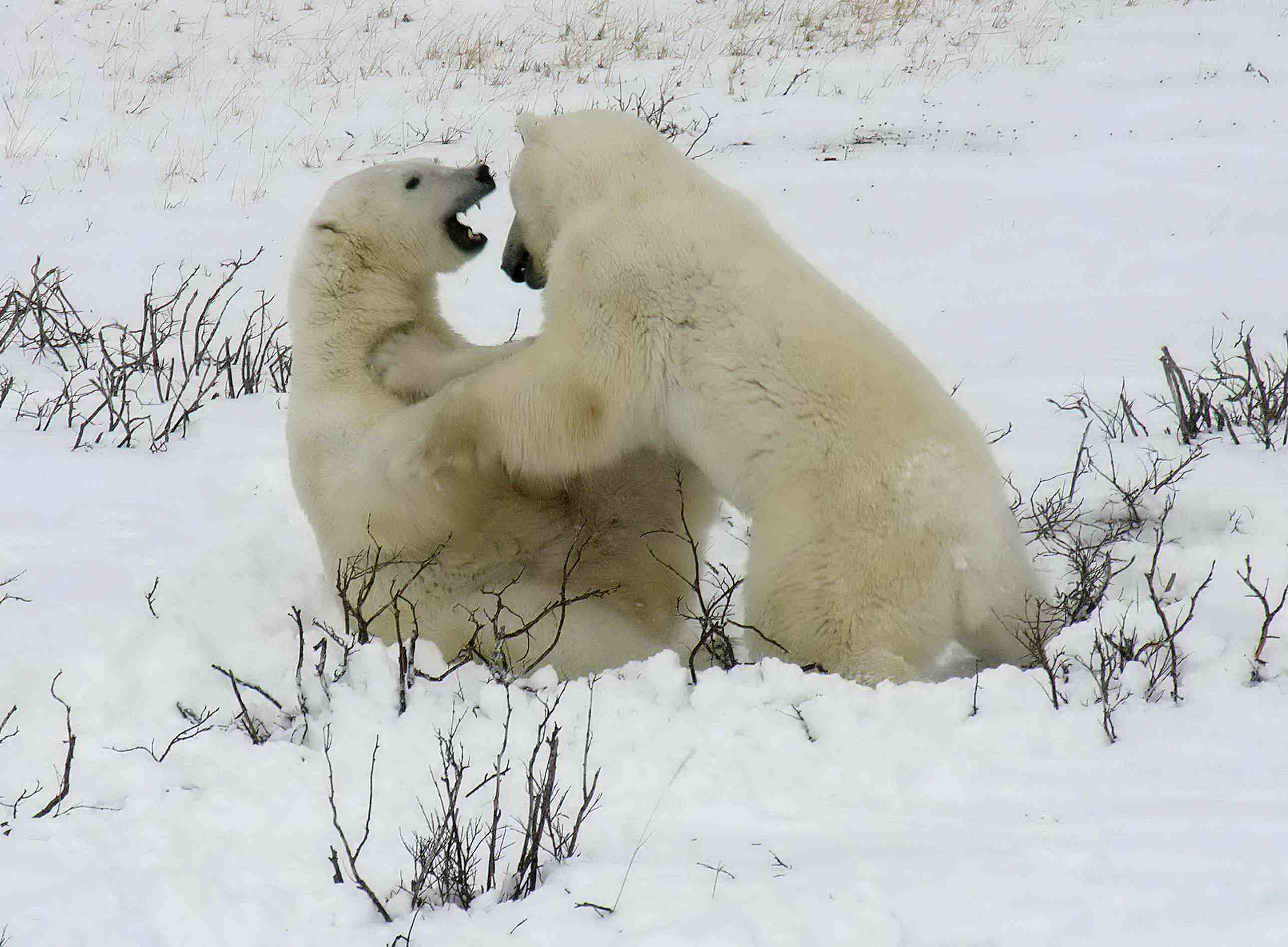 Sparring polar bears (Wapusk National Park, Manitoba, Canada)